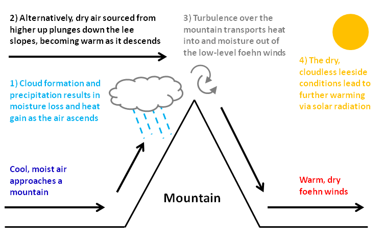 The causes of the foehn effect in the lee of mountains. Adapted from Elvidge, A. D., & Renfrew, I. A. (2016). The causes of foehn warming in the lee of mountains. Bulletin of the American Meteorological Society, 97(3), 455-466.